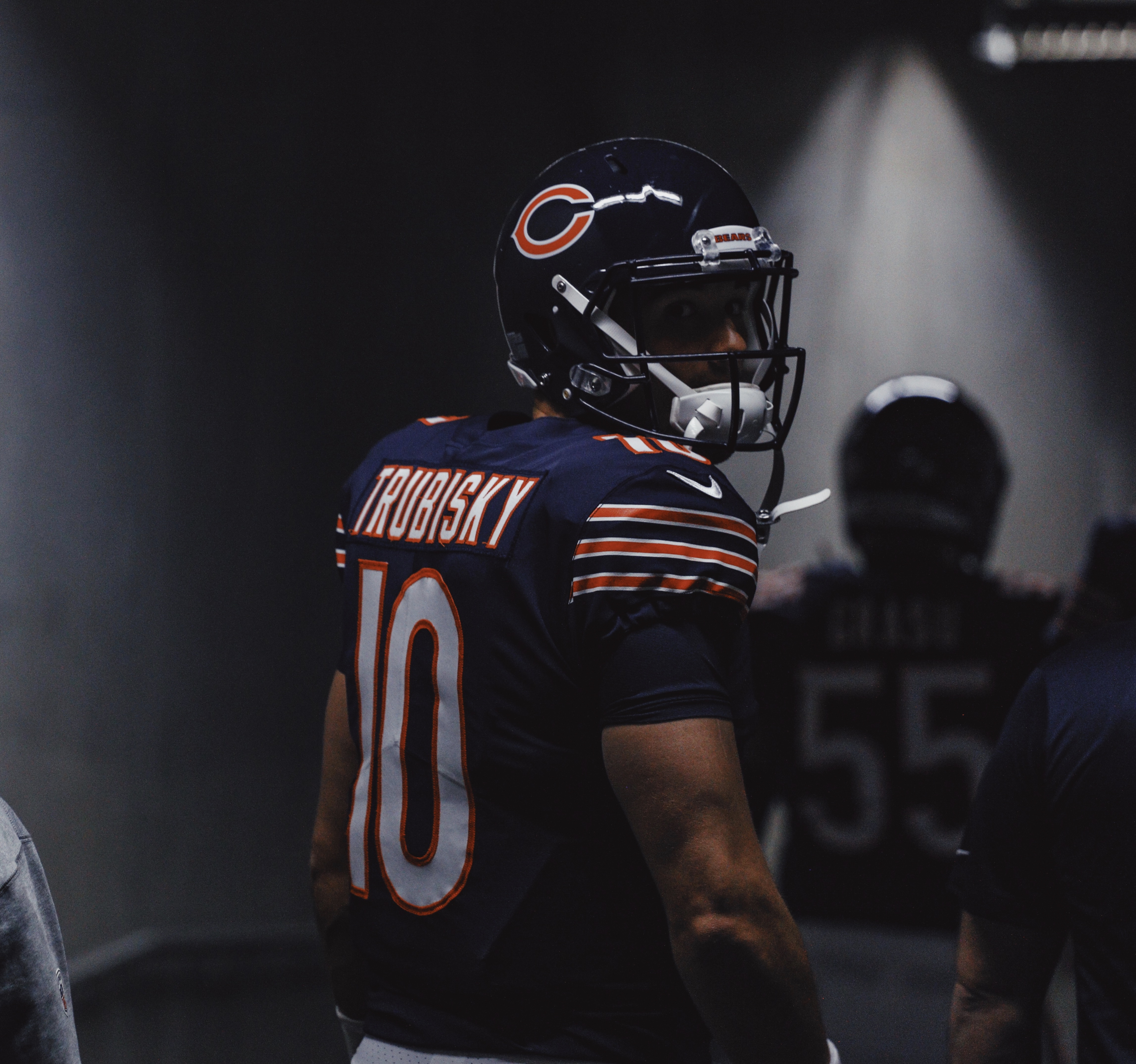 Trubisky at Ford Field in Detroit, MI on December 16, 2017 (Captured by Cameron Good)